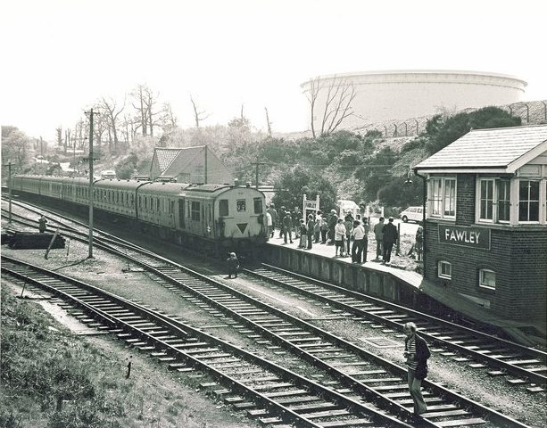 The Fawley Flyer Railtour. This is believed to have been the last time a passenger train stopped at Fawley railway station, situated at the entrance to Fawley Refinery, near Southampton. The occasion was a Private Charter using two Hampshire Units coupled together, the date was Sunday 23rd April 1978 and the train had started from Totton on the main Southampton to Bournemouth Line. The circular structure looming in the background is one of the refinery's tanks.